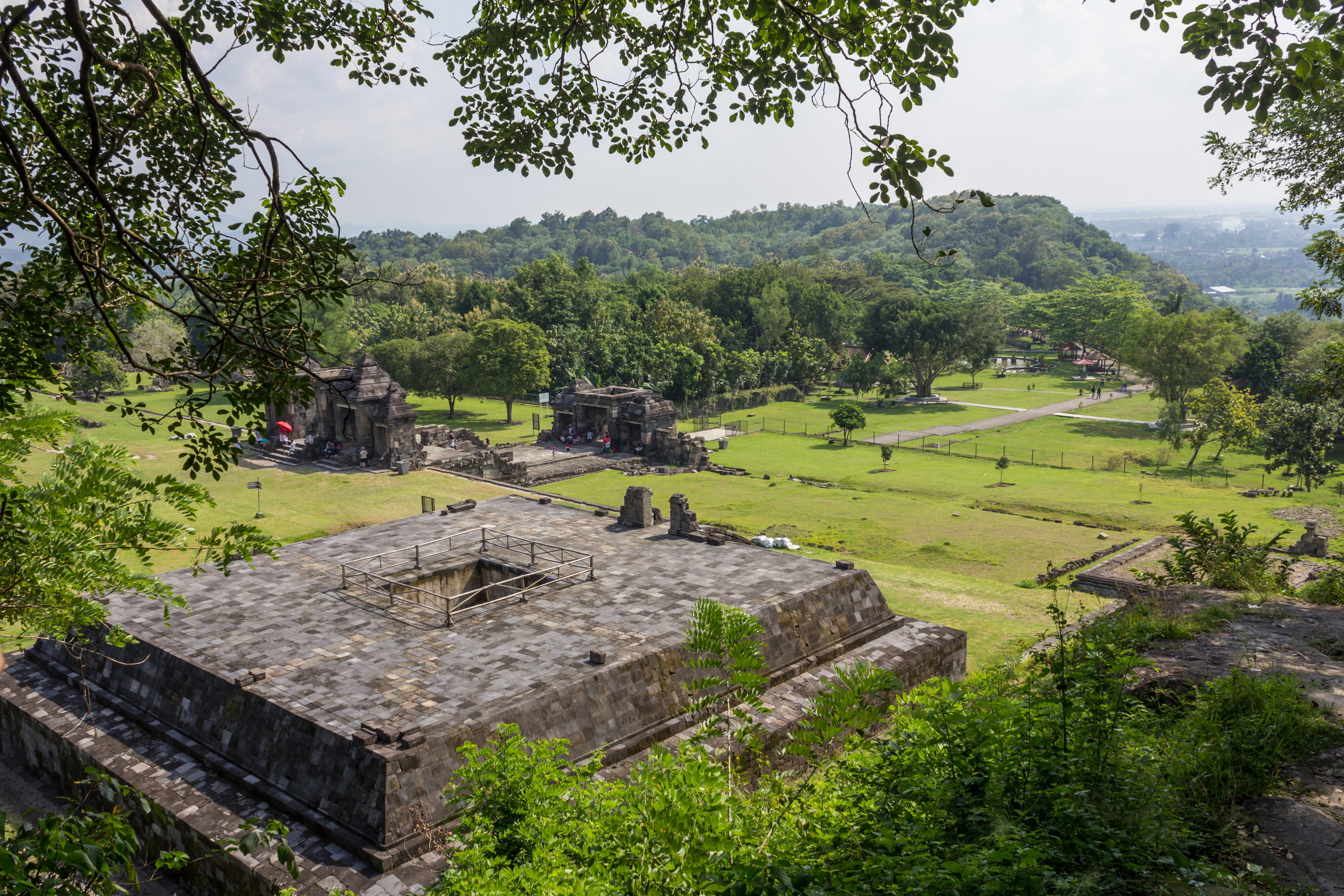 Largest terrace, Ratu Boko, 2014-03-31